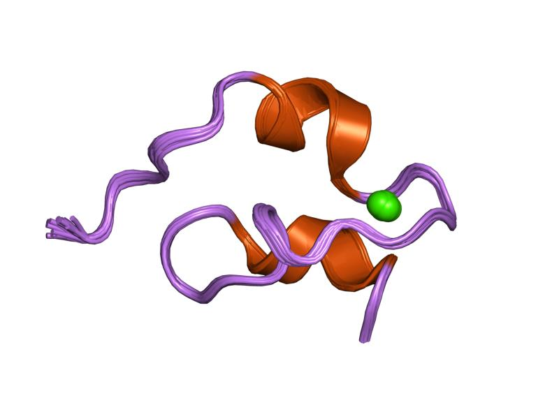 Cartoon representation of the molecular structure of protein registered with 1pb5 code.